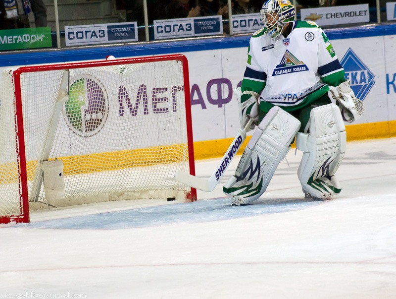 KHL game Amur Khabarovsk vs. Salavat Yulaev Ufa on September 24, 2011. Salavat Yulaev goaltender Erik Ersberg after allowig the goal.